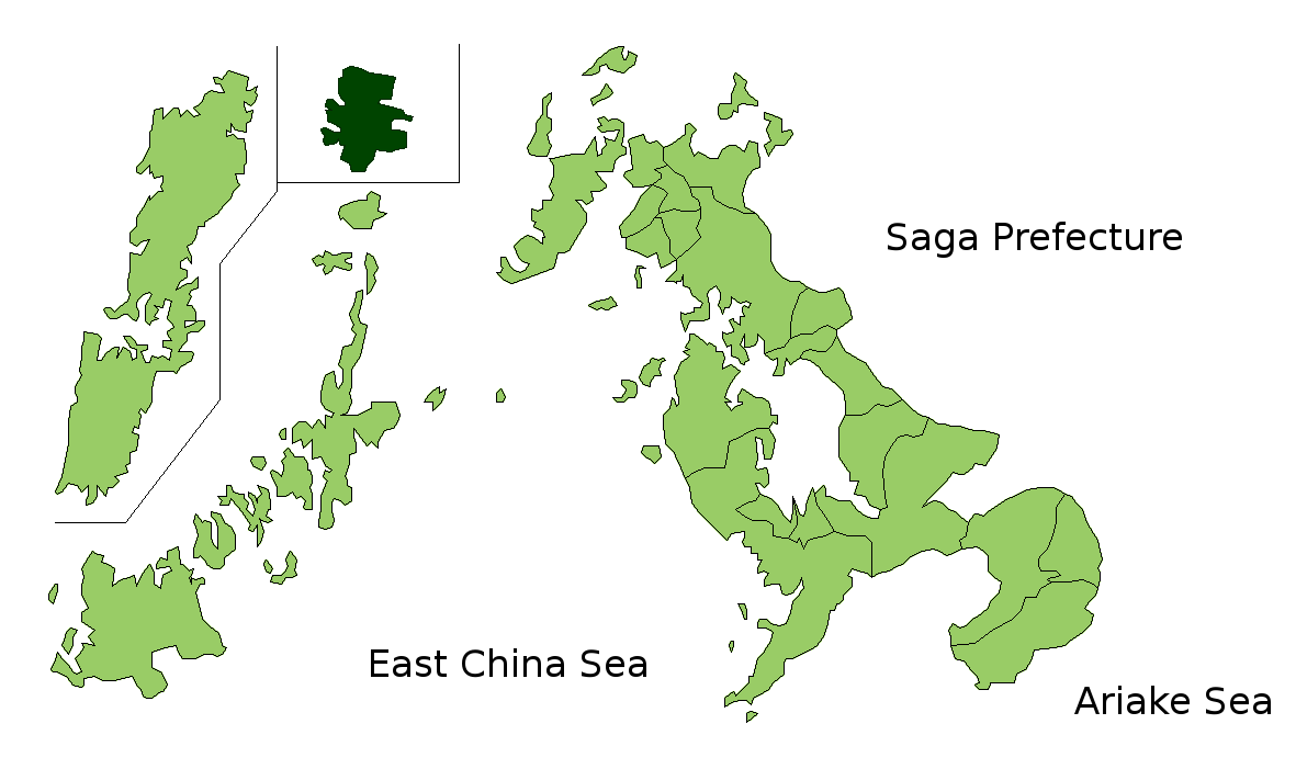 Map of Nagasaki Prefecture highlighting Iki city. Borders of map as of July, 2006. (blank map used from [1]) See also Image:NagasakiMapCurrent.png.